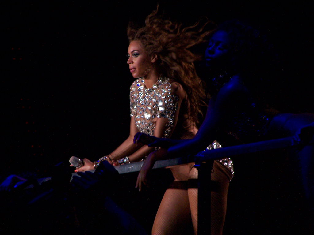 Beyoncé on a concert in Barcelona.